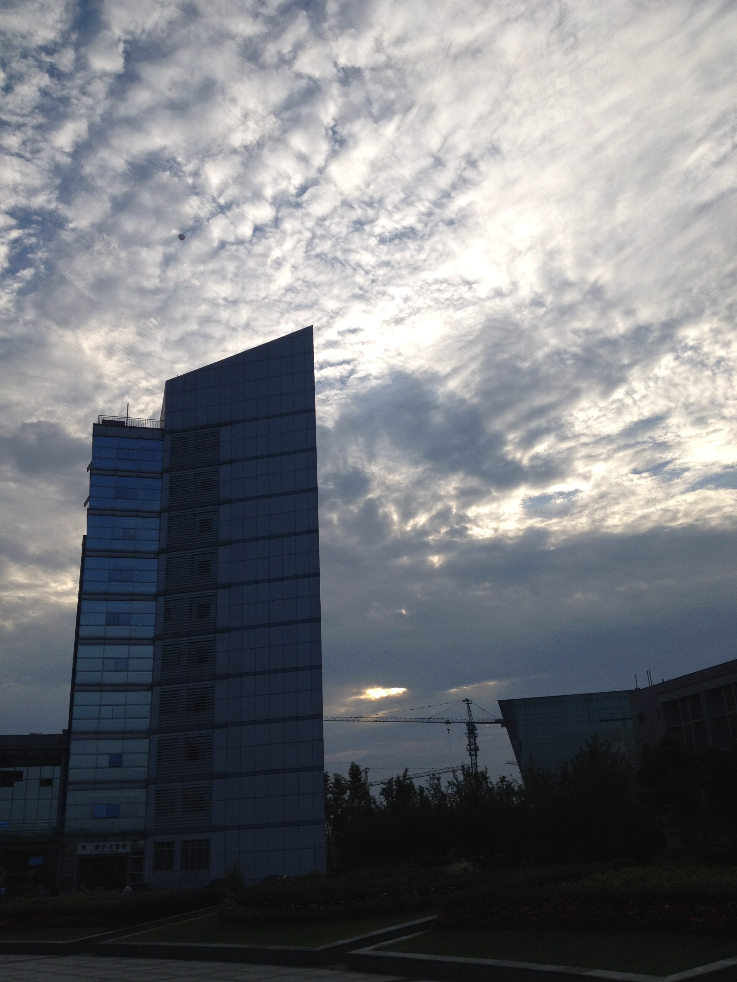 The landscape of Sichuan Agricultural University(Chengdu Campus) in the morning. The building is one of the main research building in this campus.